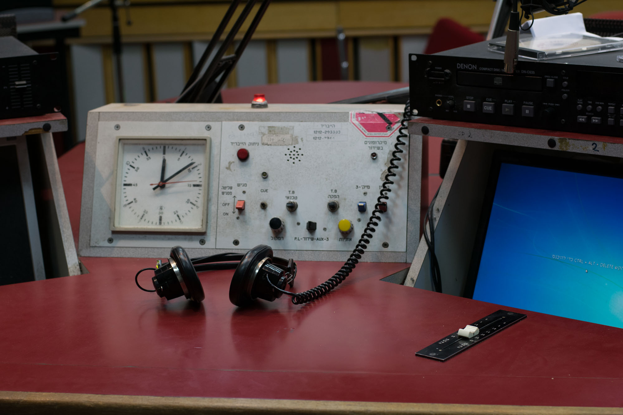 Kol Israel Heleni Hamalka Jerusalem